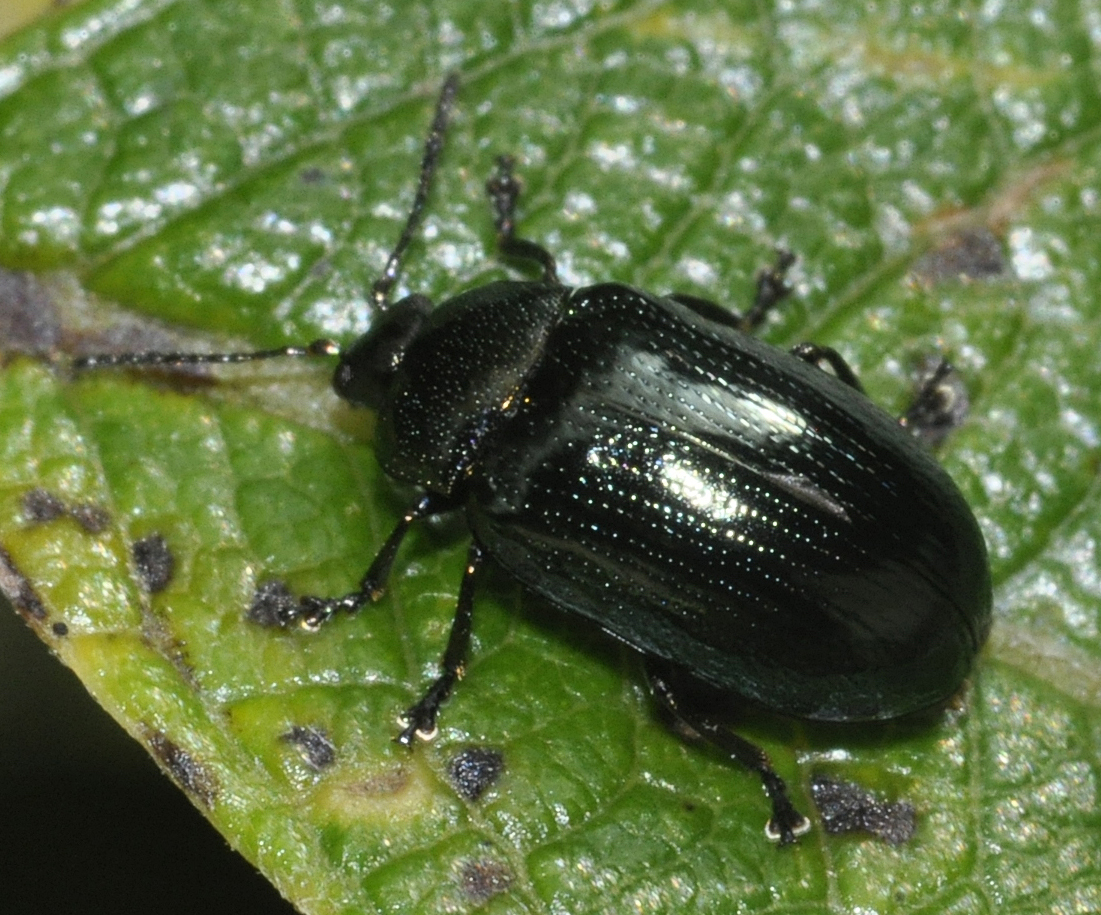 Phratora vulgatissima (Linnæus, 1758). Germany: S Bayern, Landkreis Garmisch-Partenkirchen, Partnach valley upperside Partnachklamm, 1000 m.